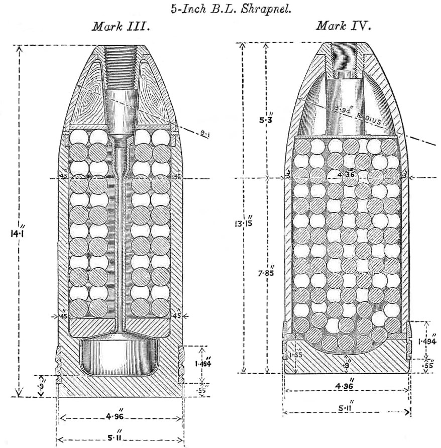 Diagrams of Mk III (left) and Mk IV (right) shrapnel shells for British BL 5 inch gun. Mk III : Shell walls of forged steel, bursting charge is in base. Shell does not break up on bursting. On bursting the bullets are ejected through the nose of the shell. Contains 236 lead-antimony balls, 14/pound. Mk IV : Bursting charge is contained in a cylindrical tin chamber in the shell nose, and hence there is no central tube. On bursting the bullets are ejected through the base of the shell. Contains 400 lead-antimony balls, 16/pound.